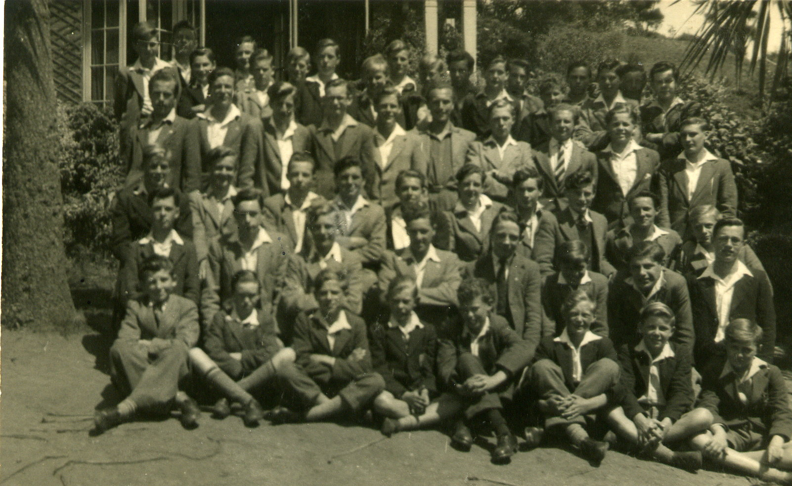 A group photograph of the staff and pupils who had been evacuated from Devonport High School in Plymouth to the relative safety of Penzance County School in the town of Penzance, Cornwall, United Kingdom.